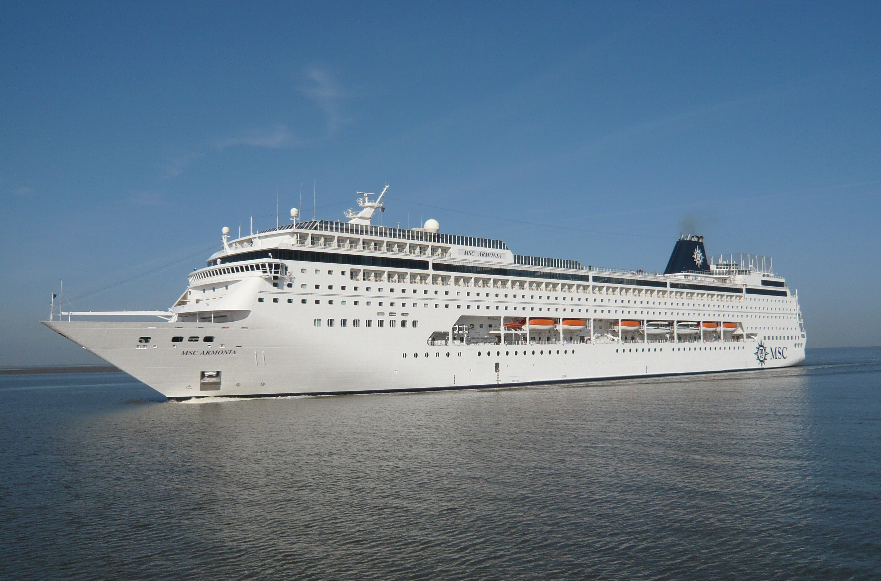 Cruise ship MSC Armonia on her way to Bremerhaven